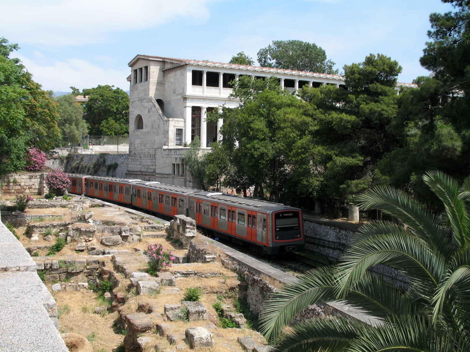 Train of the Athens Metro (Line 1). In the background the Stoa of Attalus.